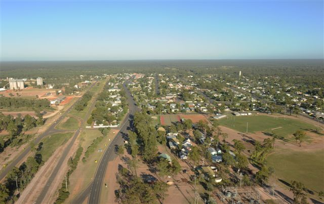 An aerial view of the Miles Historical Village, illustrating how large the site is, and how spread out the town of Miles really is. Miles, QLD.